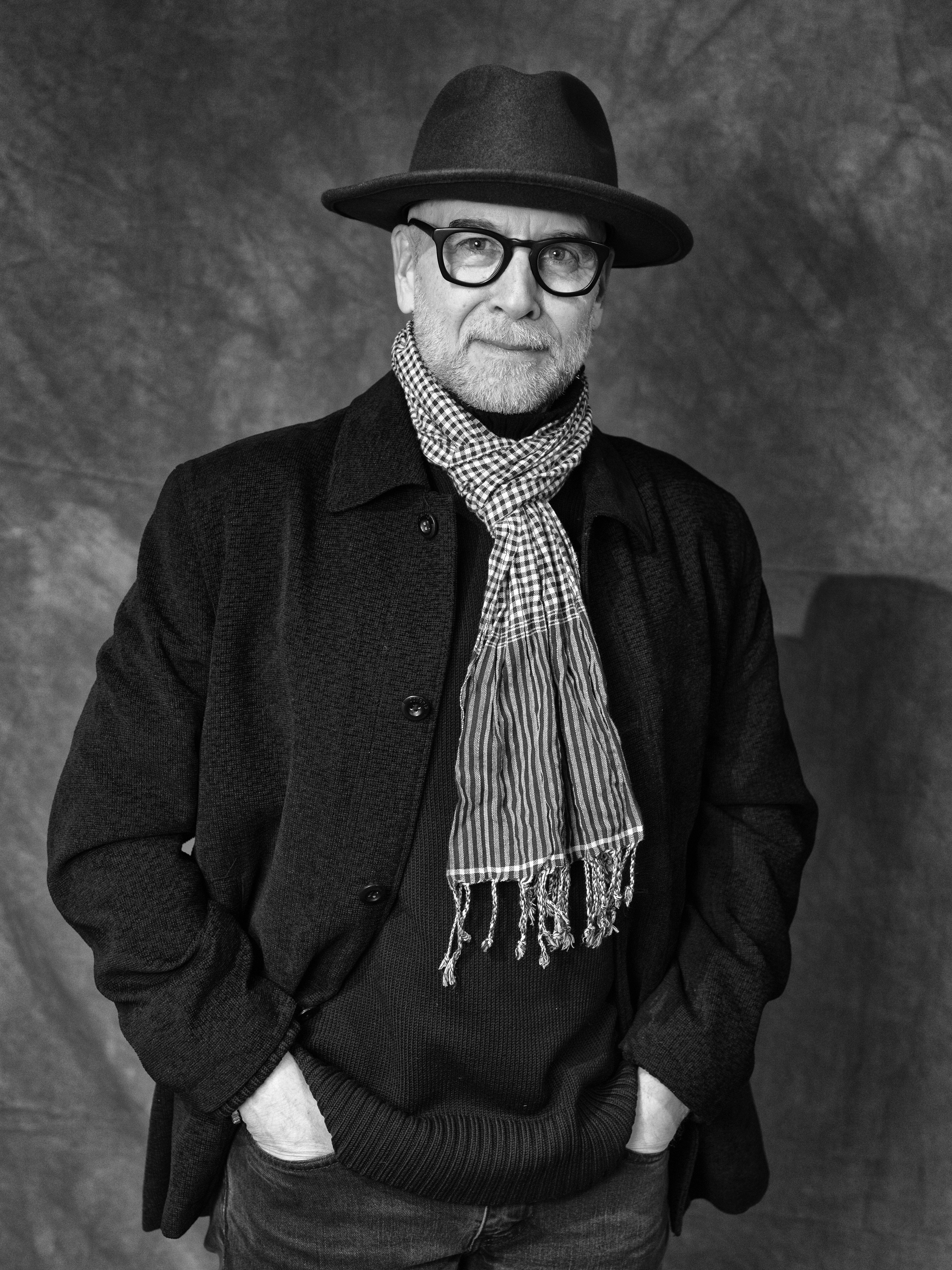 Doug Menuez at the Leica Gallery in New York City (2019) by Christopher Michel